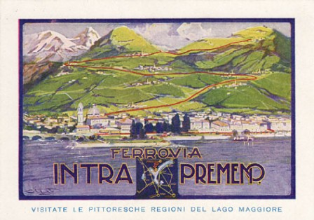 Intra-Premeno railway postcard